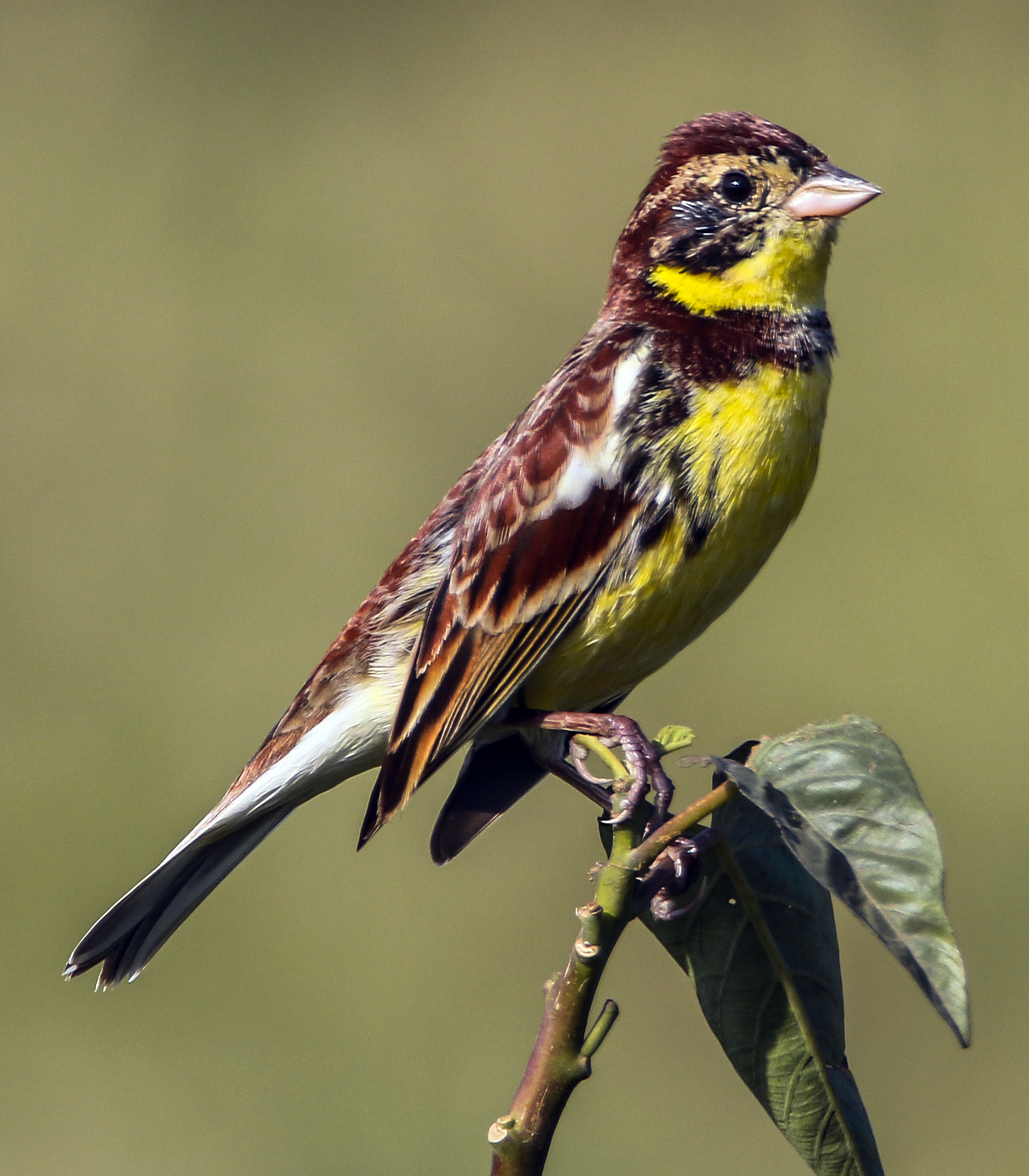 Yellow-breasted bunting in Nepal (Cropped)